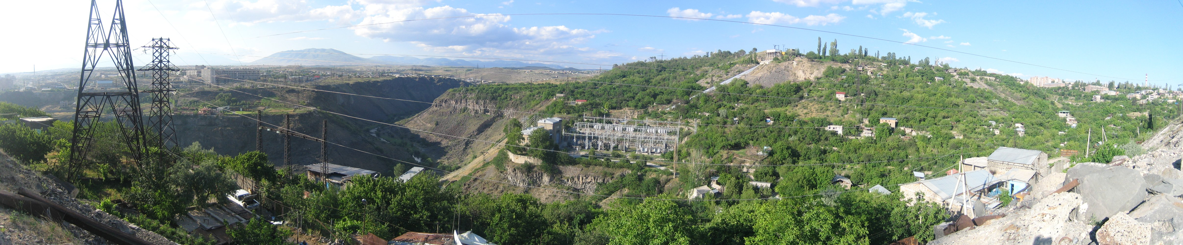 Panorama of the hydroelectric power plant along the Hrazdan River in the Arabkir district of Yerevan, Armenia.Kanaker Hydroelectric Power Station